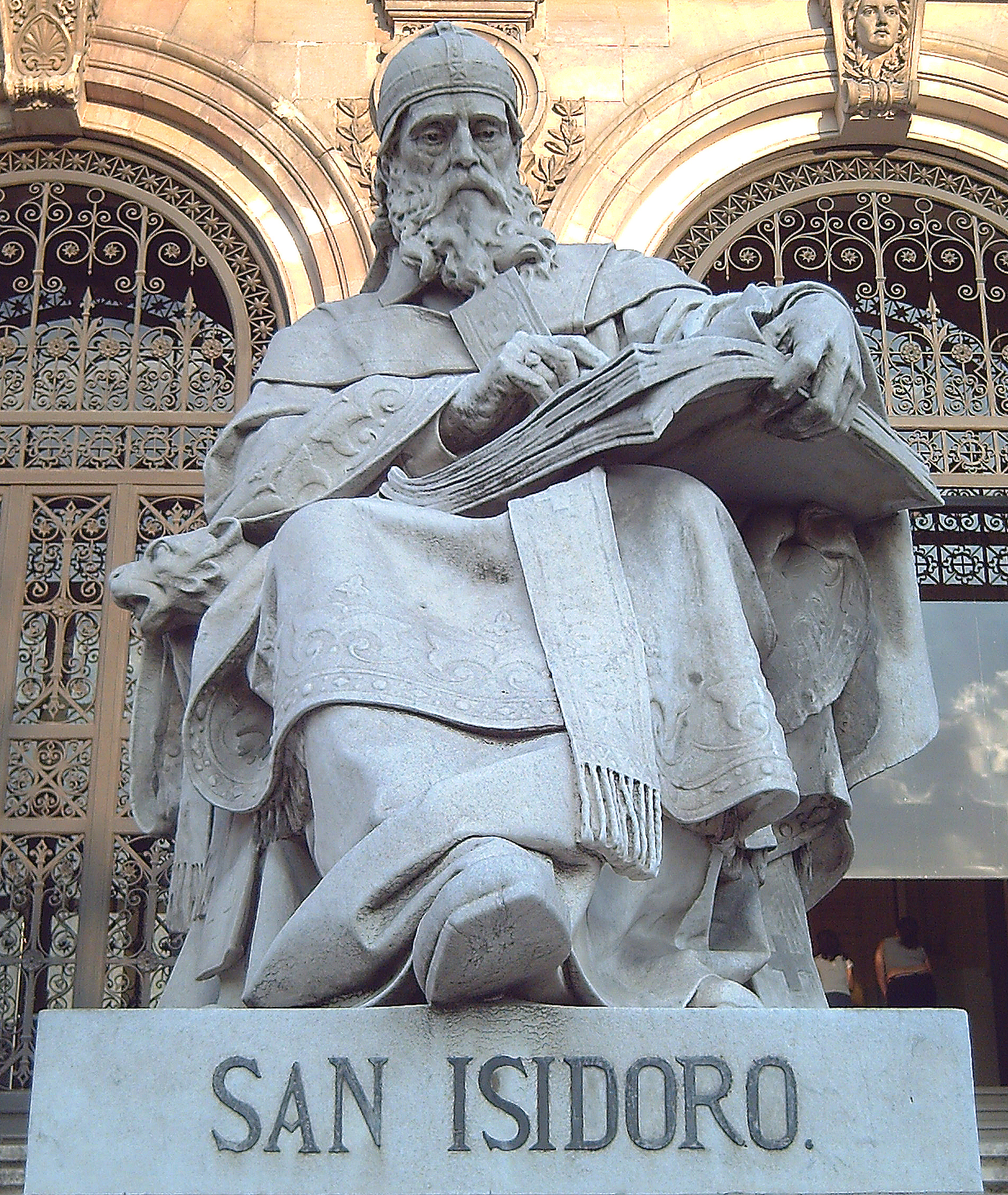 Statue of Isidore of Seville.